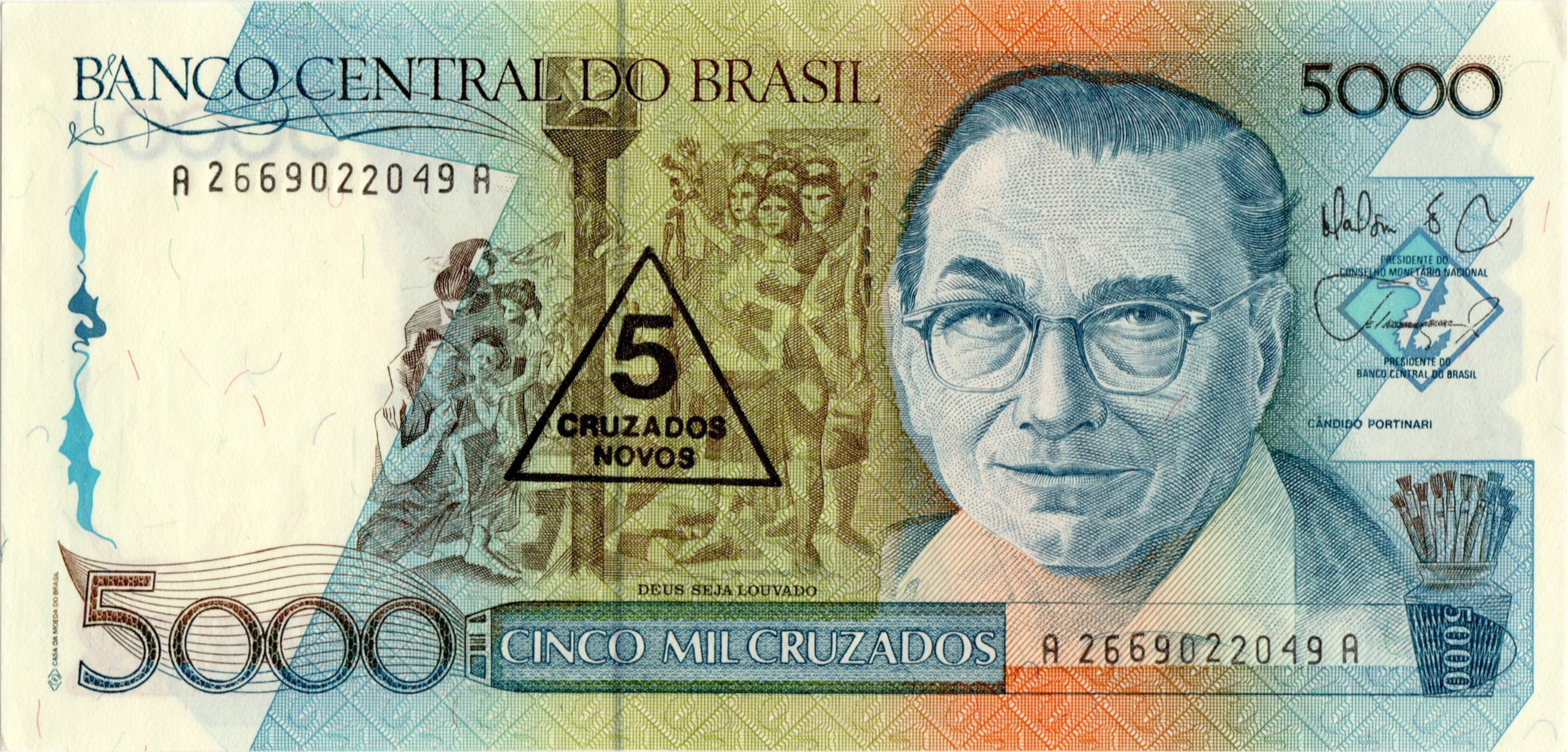 Obverse of a Brazilian 5000 cruzado banknote overstamped with a value of 5 cruzados novos. The cruzado novo replaced the cruzado as Brazil's currency at a rate of 1:1000 in January 1989. The initial cruzado novo banknotes were 1000, 5000, and 10,000 cruzado banknotes overstamped with their value in cruzados novos (1, 5, and 10 cruzados novos, respectively). The banknote features Brazilian artist Candido Portinari on both sides. The dark, vertical line is a plain security thread embedded in the paper. The line is visible even without backlighting and appears in this scan about the same as it does when the bill is placed on a dark surface.